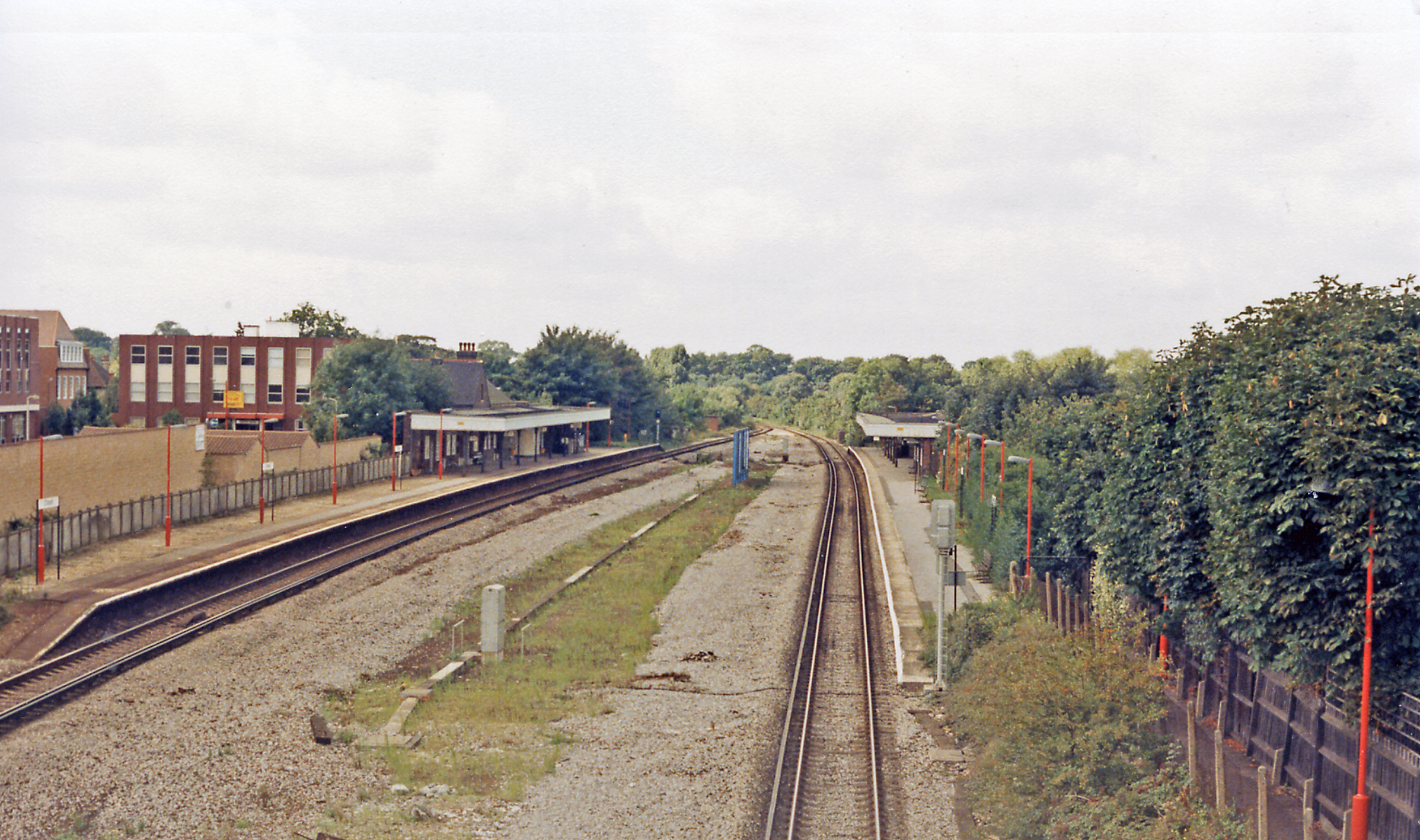 Cheam station, 1986. View westward from the A217 bridge, towards Epsom, Leatherhaed, Dorking etc.: ex-LB&SCR Victoria/London Bridge - West Croydon - Sutton - Epsom and the South Coast via Horsham. Evidently at one time there were Down and Up Fast lines through here.